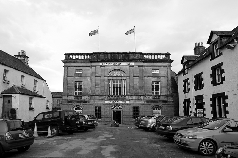 Inveraray Jail in Scotland. 5-4.5 USM Focal Length: 10mm F-Stop: f/7.1